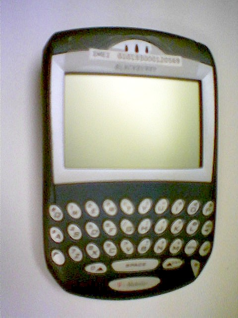 BlackBerry Quark 6230 Photo Credit: KeithTyler Capture date: Jun 15, 2004 Camera type: Nokia 3650 cameraphone This work has been released into the public domain by its author, Keith D. Tyler at English Wikipedia. This applies worldwide.In some countries this may not be legally possible; if so:Keith D. Tyler grants anyone the right to use this work for any purpose, without any conditions, unless such conditions are required by law. Note: The actual device is blue (aka a "BlueBerry"), but the color does not show due to camera compensation and lighting conditions.